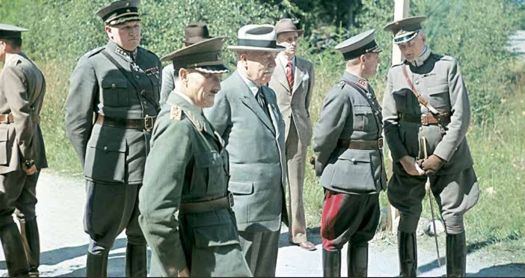 Far right: Swedish general Henry Kellgren. In the foreground, with his side to the camera, is the Swedish general Hugo Cederschiöld (1878-1968)